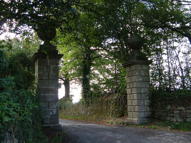 Entrance to Fardel. Impressive gateposts at the entrance to the driveway to the Tudor manor of Fardel.